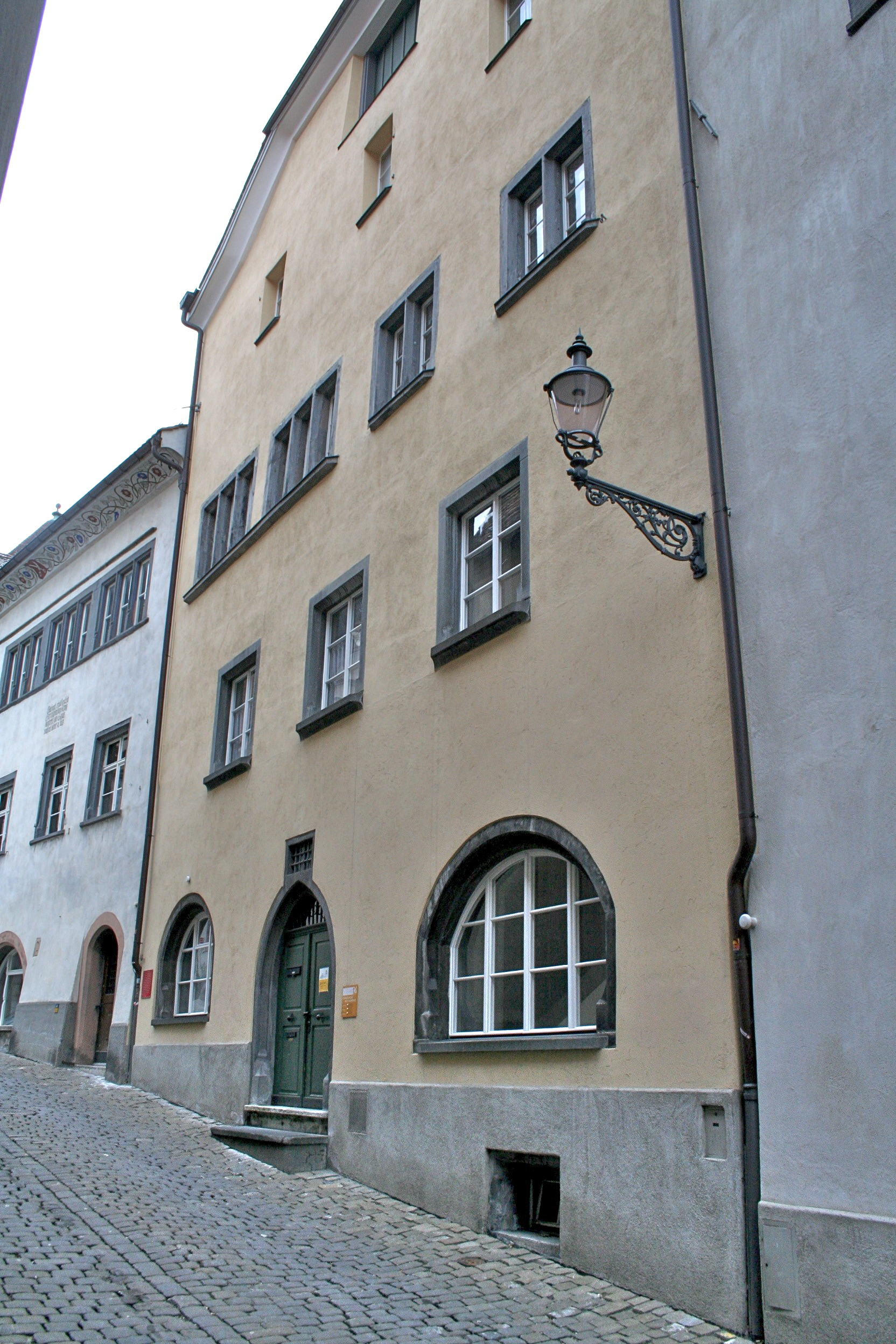 Antistitium in Chur